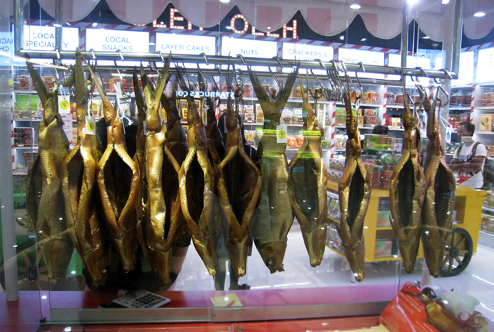 Bandeng asap, Indonesian smoked milkfish, sold in Juanda International Airport, Surabaya, Indonesia.